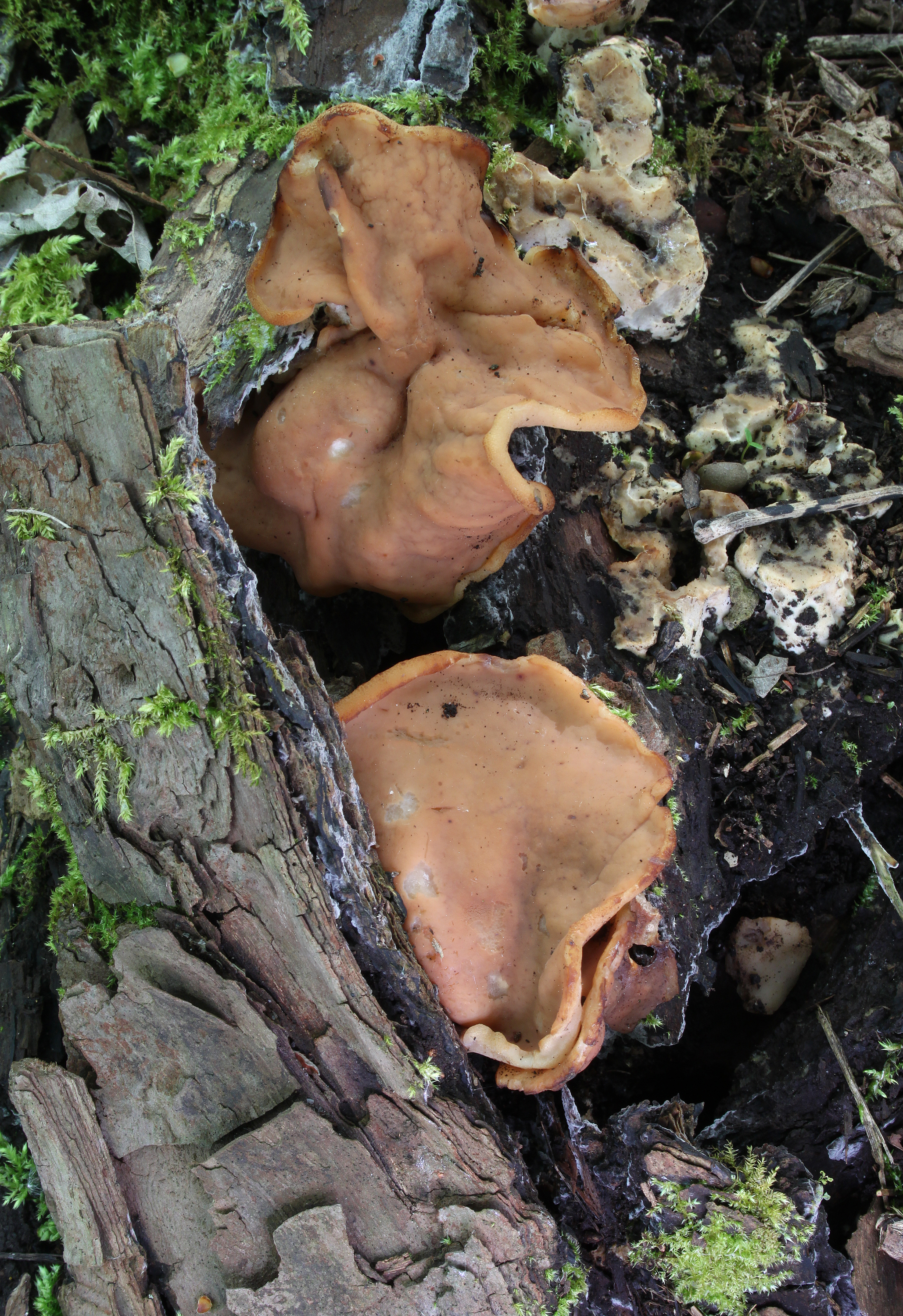 Gyromitra parma, Family: Discinaceae, Location: Germany, Neu-Ulm, Senden